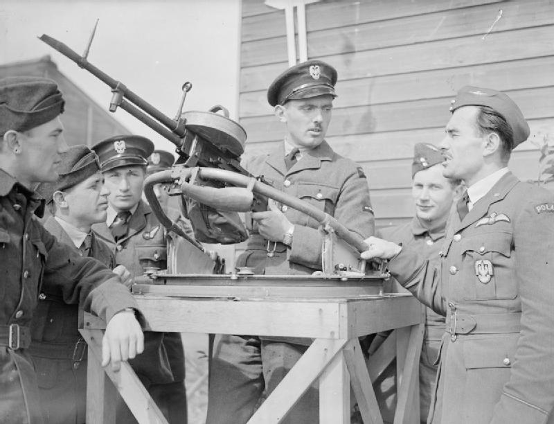 Royal Air Force 1939-1945- Bomber Command Trainee Polish air gunners receive instruction on a Vickers (VGO) K machine gun at a bombing and gunnery school. These were some of the Polish airmen who had escaped to Britain after the Battle of France, some of whom had been serving with the French Air Force. See also File:Royal Air Force- the Polish Air Force in the United Kingdom, 1939-1945. CH574.jpg.